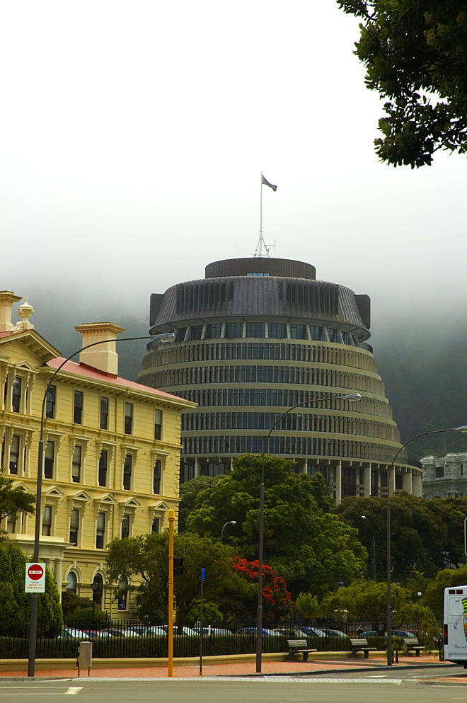 Parliament buildings (2 February 2005.), Wellington, New Zealand. Photograph by James Shook, who retains copyright and releases the image under the license shown below.